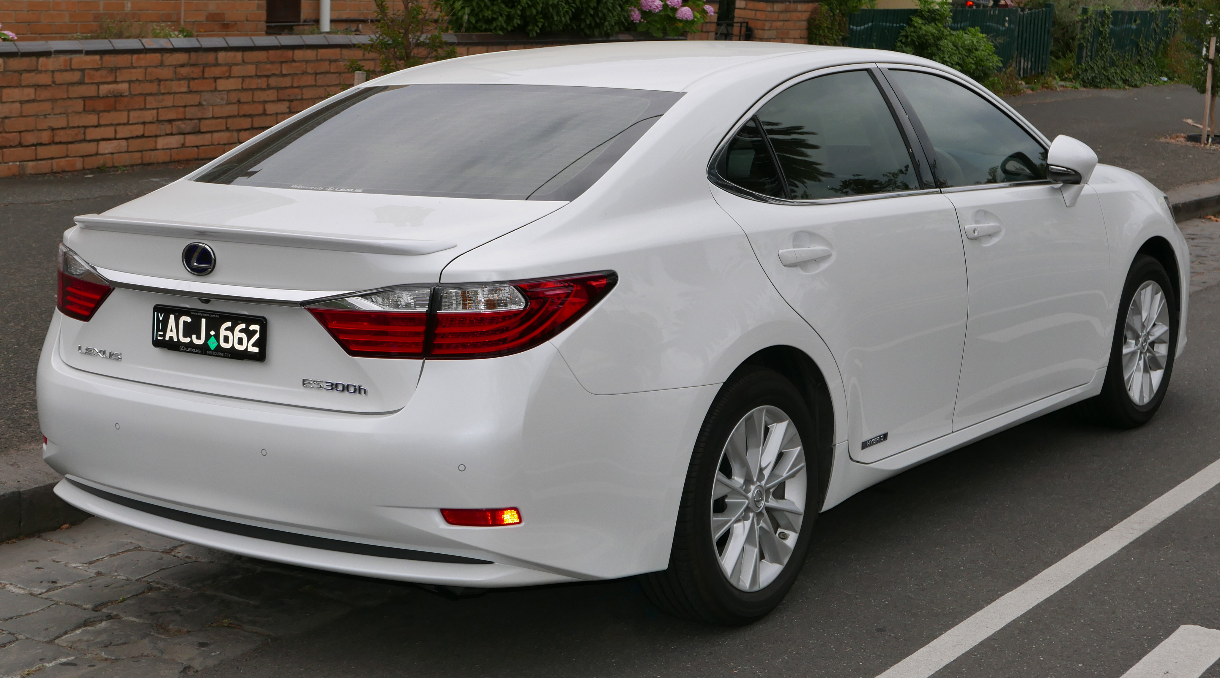 2013 Lexus ES 300h (AVV60R) Sports Luxury sedan. Photographed in Princes Hill, Victoria, Australia. Vehicle registration enquiry resultsJurisdictionVictoriaRegistrationACJ662Chassis codeJTHBW1GG502041985Engine code2AR0975867Compliance date2013-10Year of manufacture2013